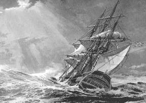 Contemporary engraving depicting HMS Lutine being blown ashore onto Terschelling where she was wrecked on the night of 9/10 October 1799